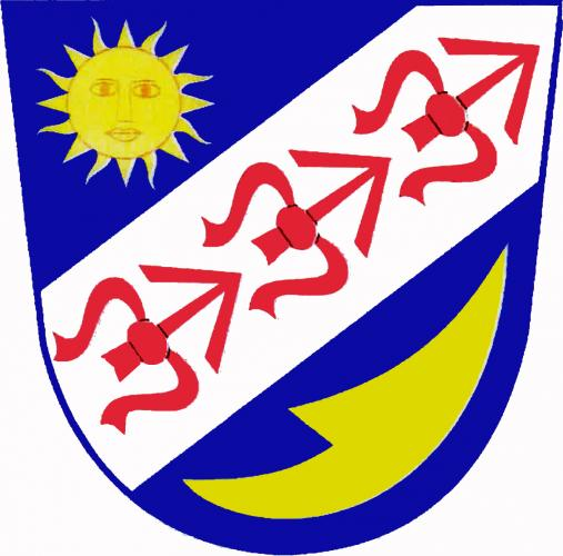 Coat of arms of Střížovice, Kroměříž District, Czech Republic.